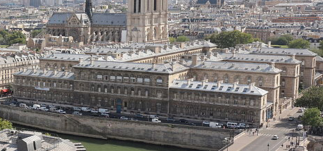 Detail from File:Panorama ND tsj.JPG by Jean-Christophe Windland